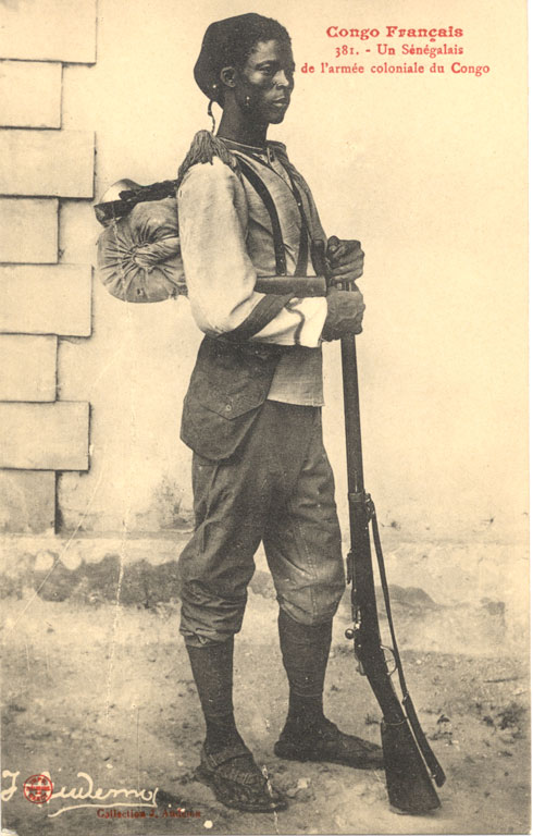 Congo Français [postcard] : Congo Français - Un Sénégalais de l'armée coloniale du Congo Contained in: Postcard Collection, 1898-[ongoing] Phy. Description: postcard : b&w ; 9 x 14 cm. Produced: [ca. 1905] Summary: Translated caption reads: French Congo. A Senegalese of the Congo colonial army. Left profile military holding a rifle, wearing a beret. Congo Français. Photograph by J. Audema General Note: Title source: Postcard caption. Image indexed by negative number. Subject-Topical: Military Subject - Geographical: Congo (Brazzaville) Form / Genre: Postcards Repository Loc: Smithsonian Institution, National Museum of African Art, Eliot Elisofon Photographic Archives, 950 Independence Avenue, S.W., Washington, DC 20560-0708 Local Number: EEPA 1985-140077